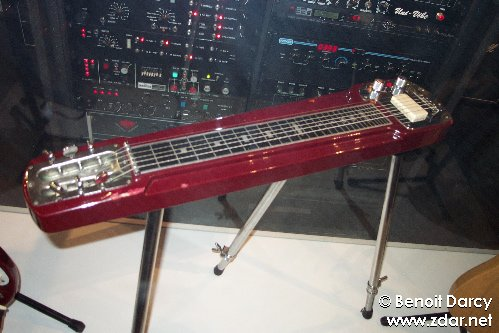 Read the story at